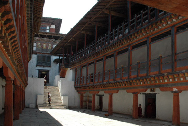 Wangdue Phodrang dzong, Bhutan